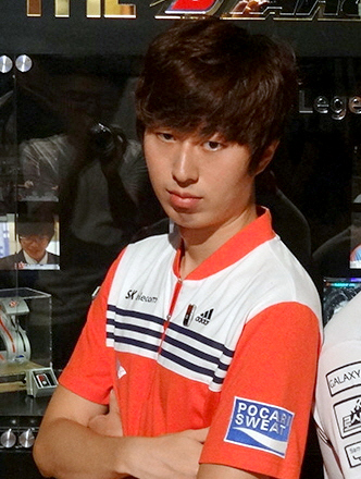 Jung Myung-Hoon on July 30, 2012